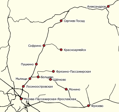 Moskva - Aleksandrov railway line. This map may be incomplete, and may contain errors. Don't rely solely on it for navigation.